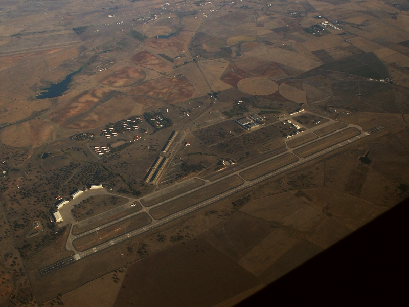 Beja Air Base as seen from above